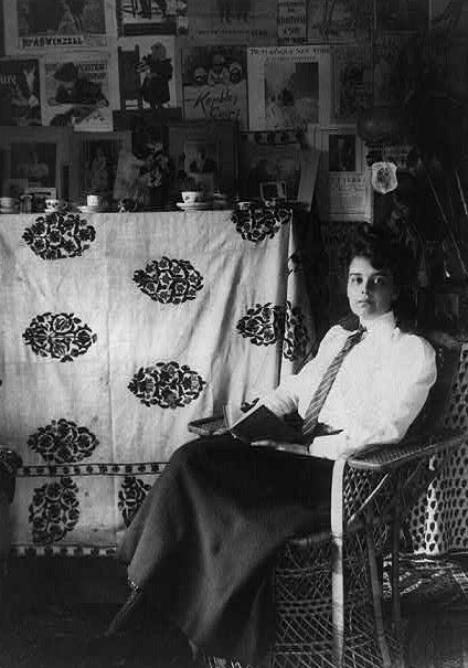 American poet, writer, racehorse owner, socialite, and philanthropist Helen Hay Whitney (1875-1944) photographed by Frances Benjamin Johnston (1864-1952)